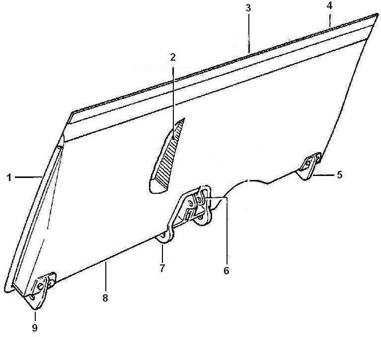 Spoiler A-319 schematic: 1 –Seal; 2 -Honeycomb core; 3 -Trailing edge profile; 4 -Rubbing strip; 5 -Inboard hinge; 6 -Actuator attachment fitting; 7 -Center hinge; 8 –Leading edge; 9 –Outboard hinge.